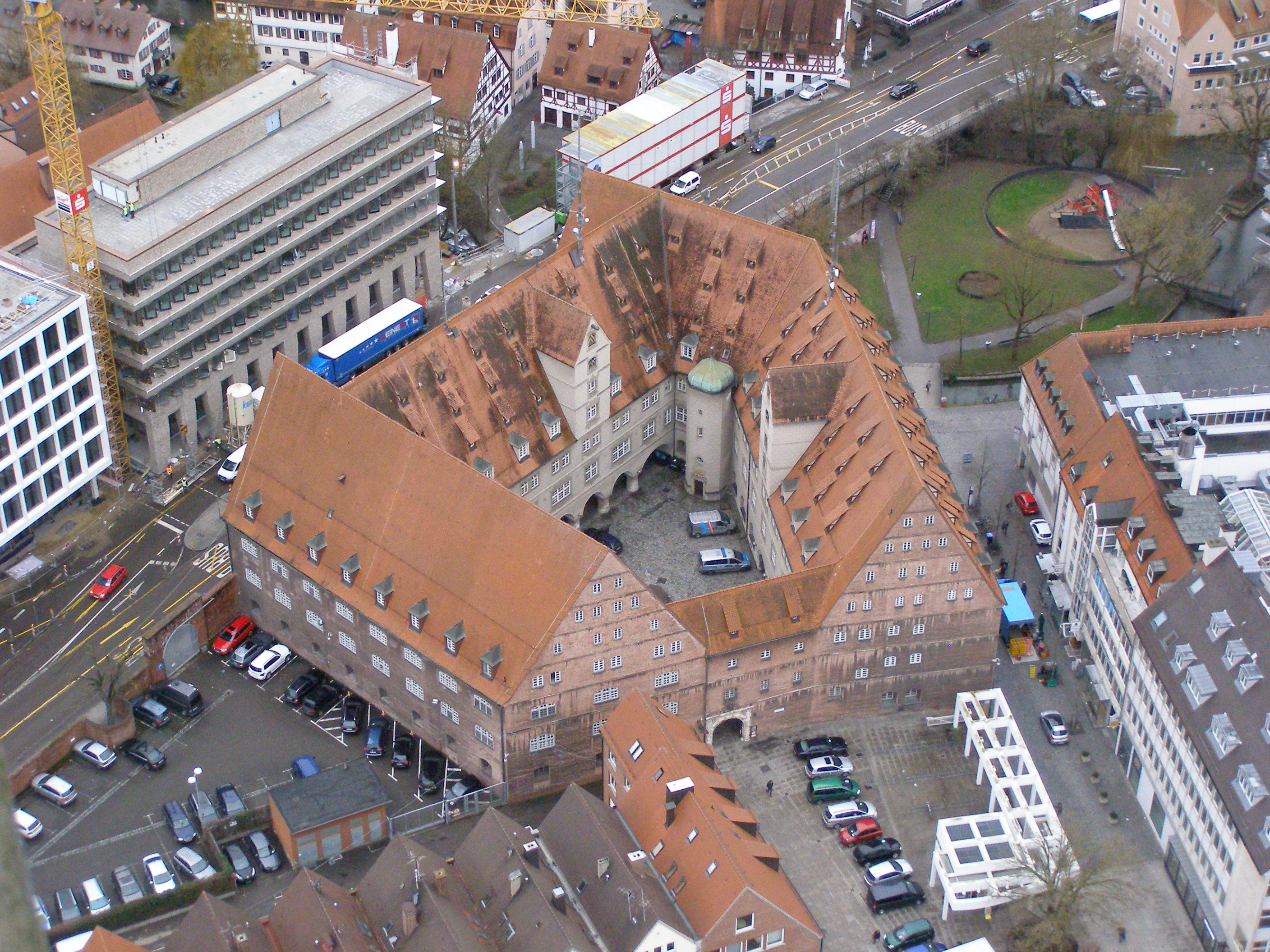 Ulm - Neuer Bau - view from the minster tower